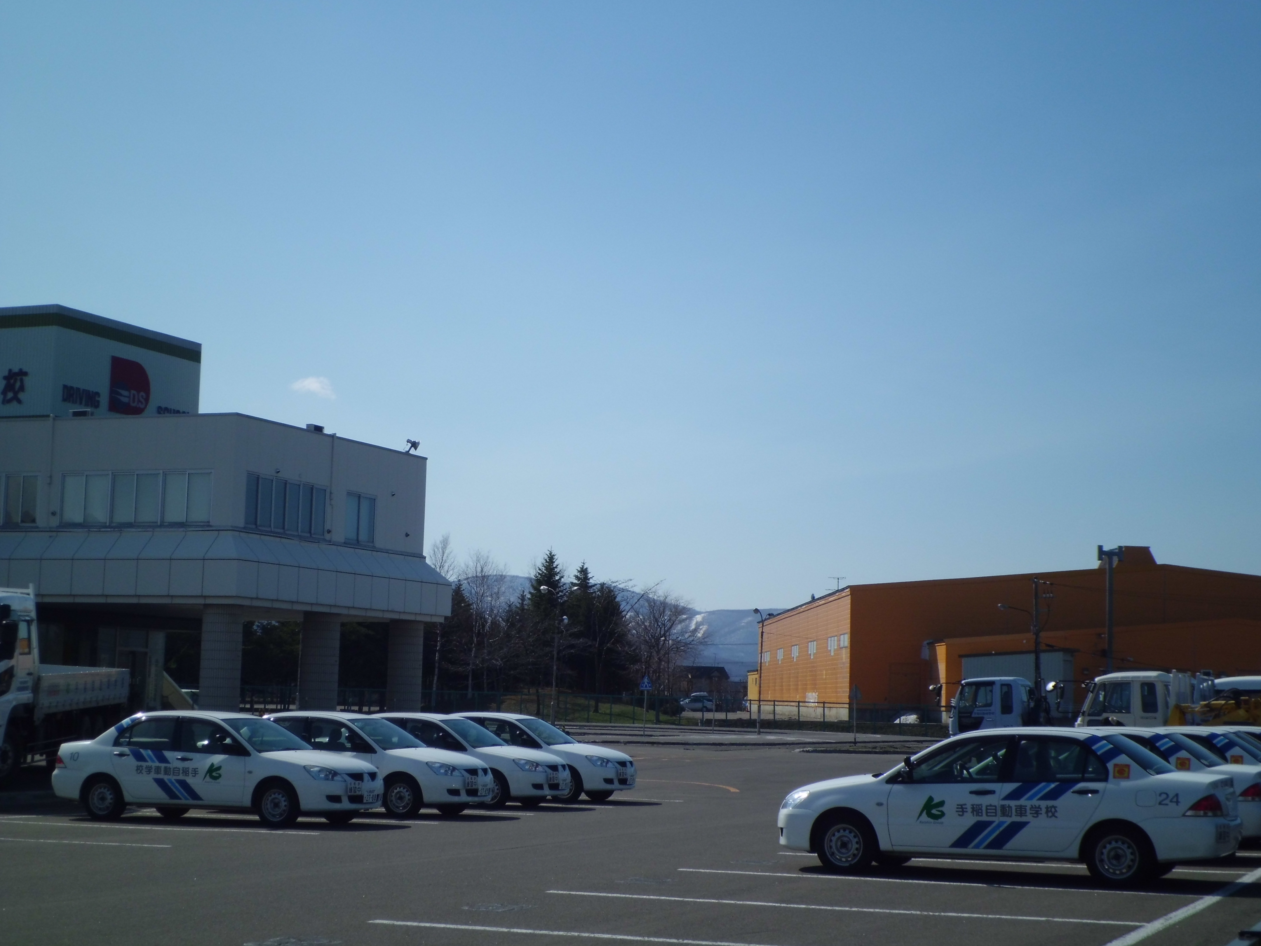 Teine Driving School